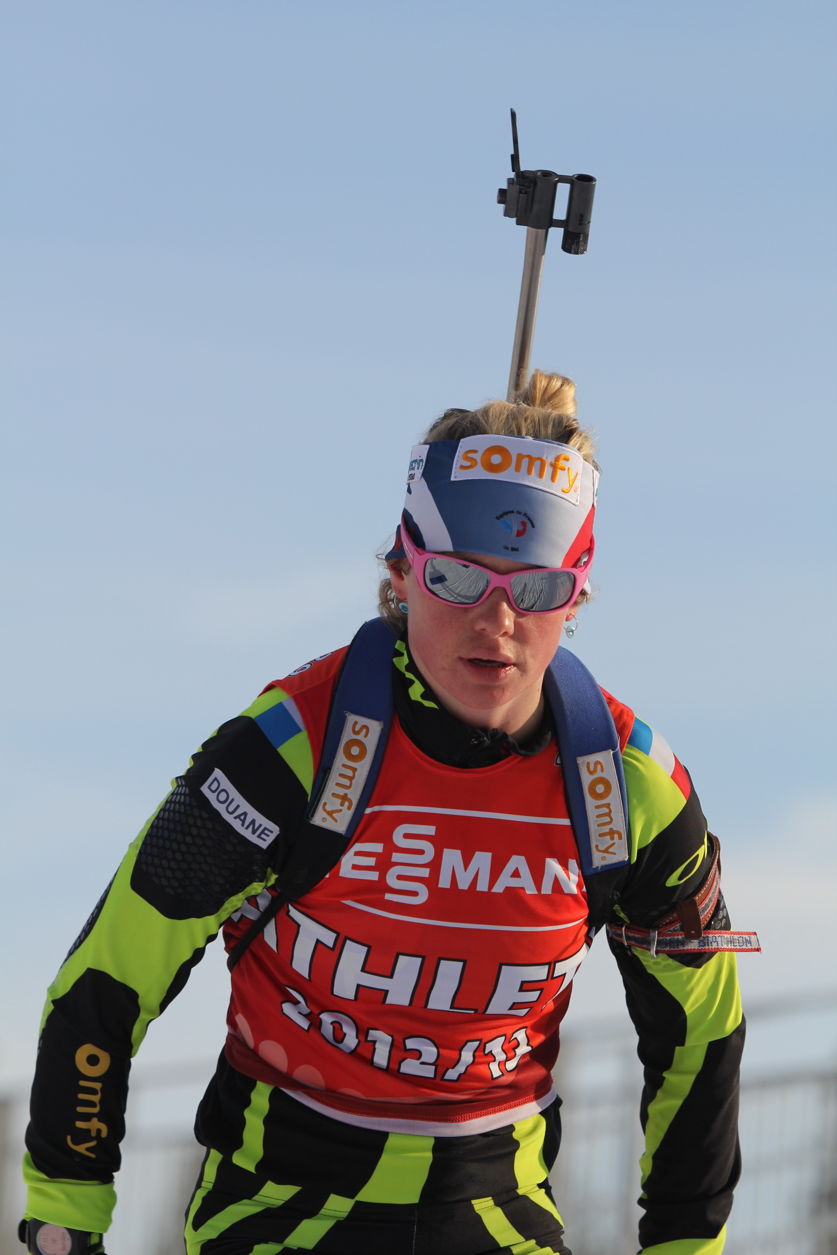 Marie Dorin Habert at Biathlon Weltcup 2013 in Oslo